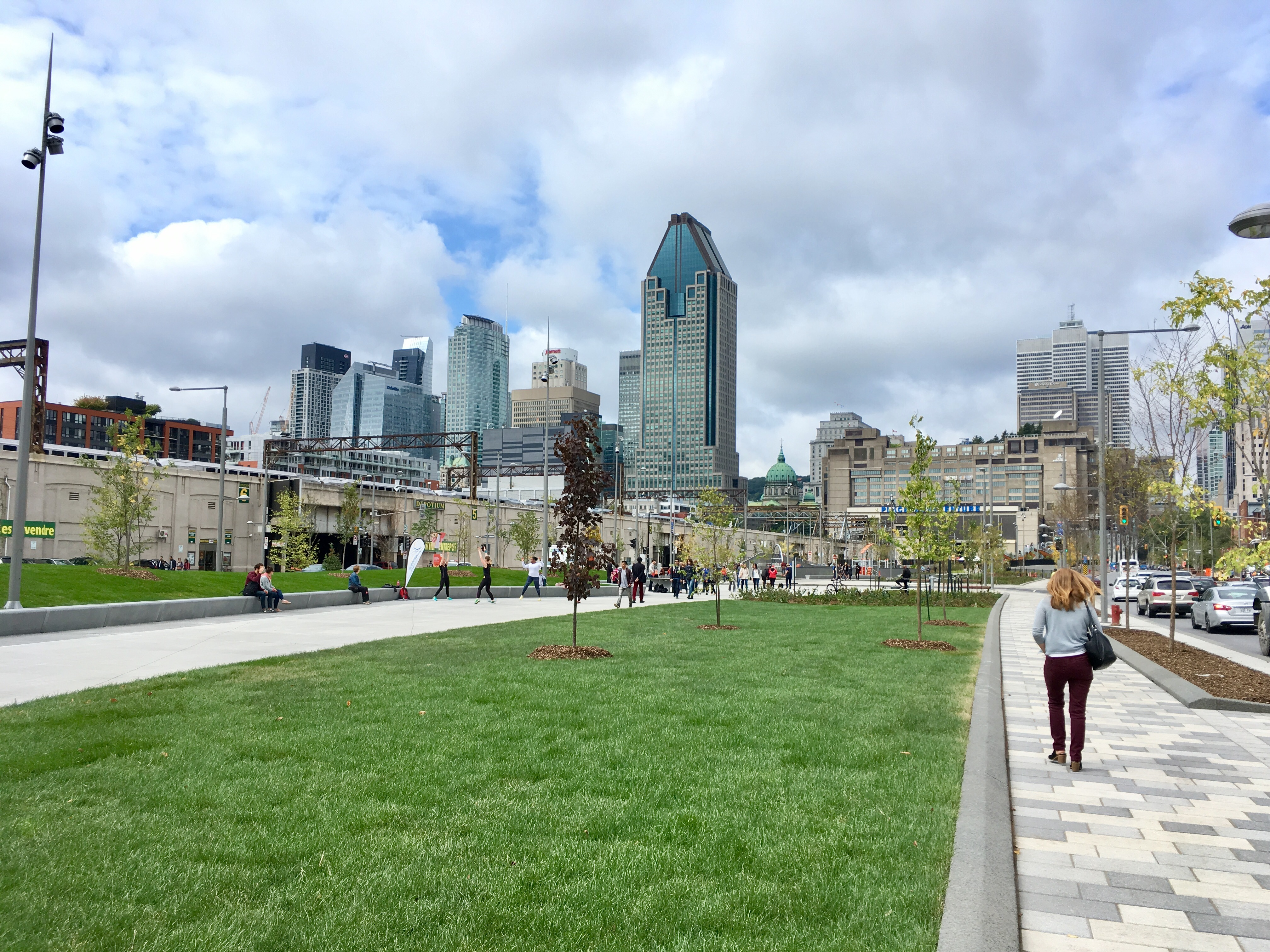 New Robert-Bourassa park.